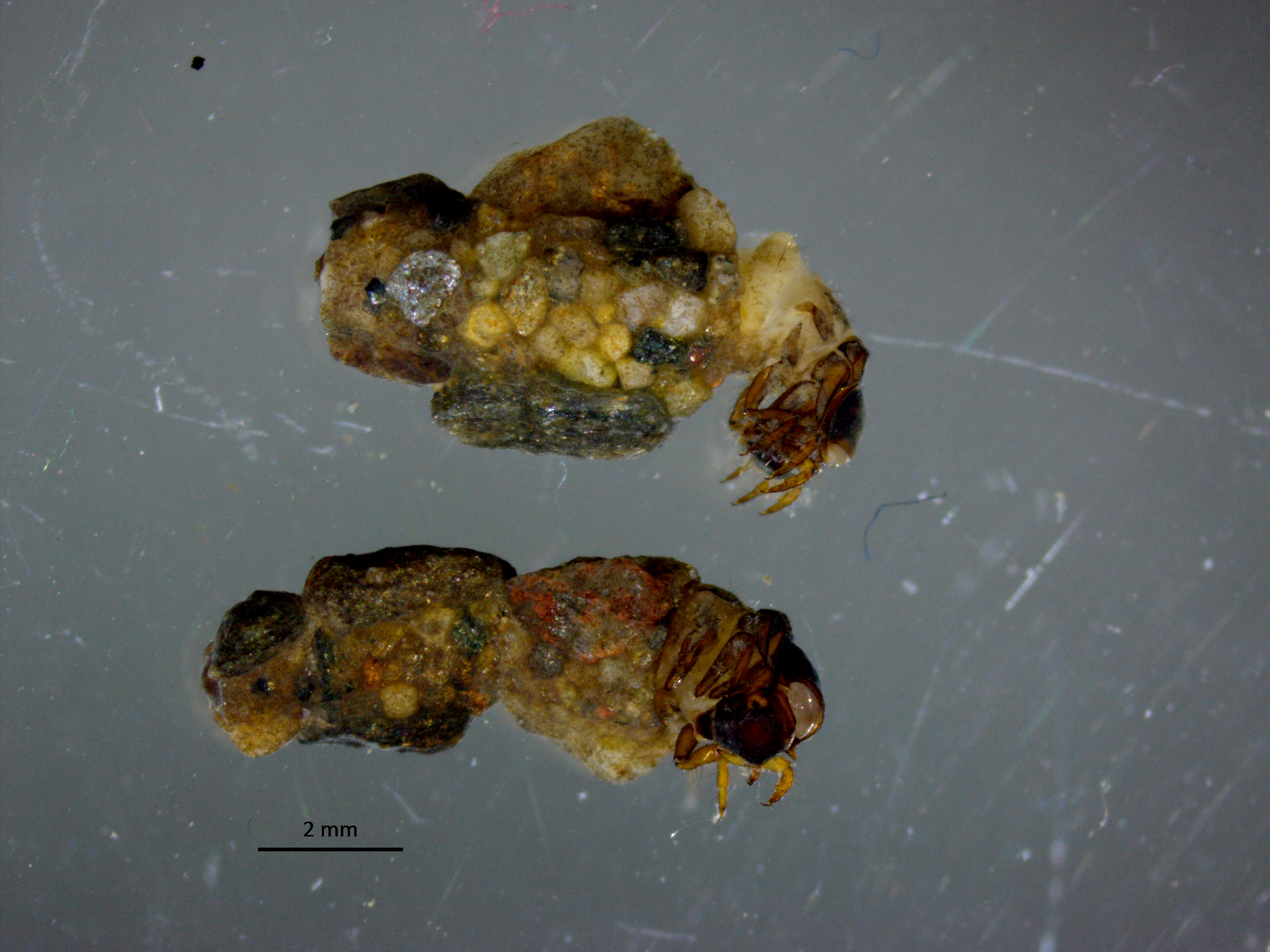 Silo nigricornis larva from Dragovištica river (SE Serbia). Српски (ћирилица): Ларва Silo nigricornis из Драговиштице (општина Босилеград, ЈИ Србија).